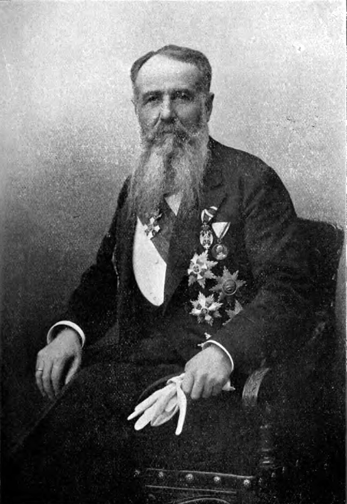 Portrait of Serbian and Yugoslav politician and Prime Minister Nikola Pašić (1906).